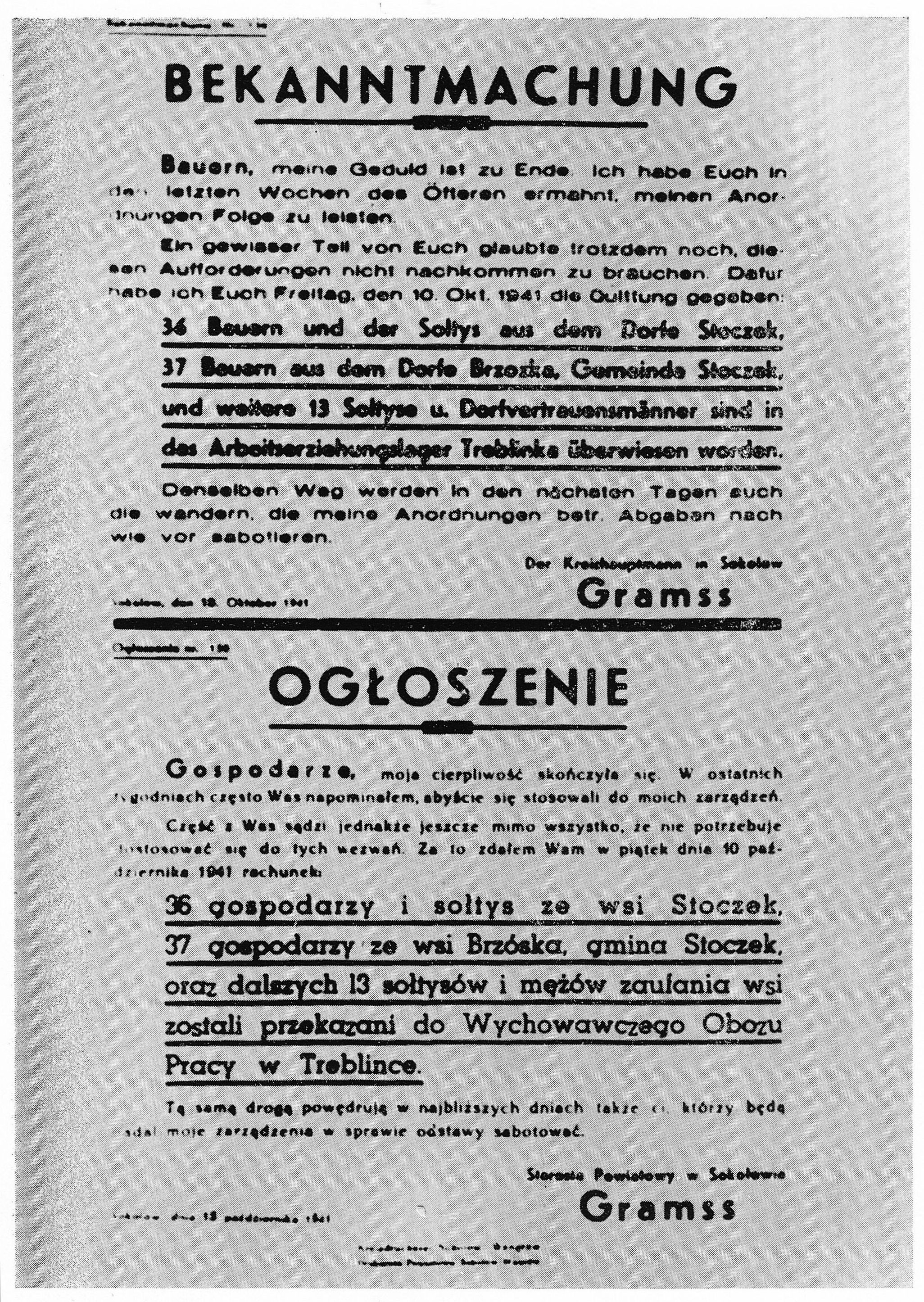 Announcement of the starosta of Sokołów Podlaski poviat about sending a group of Polish farmers to Treblinka I labour camp